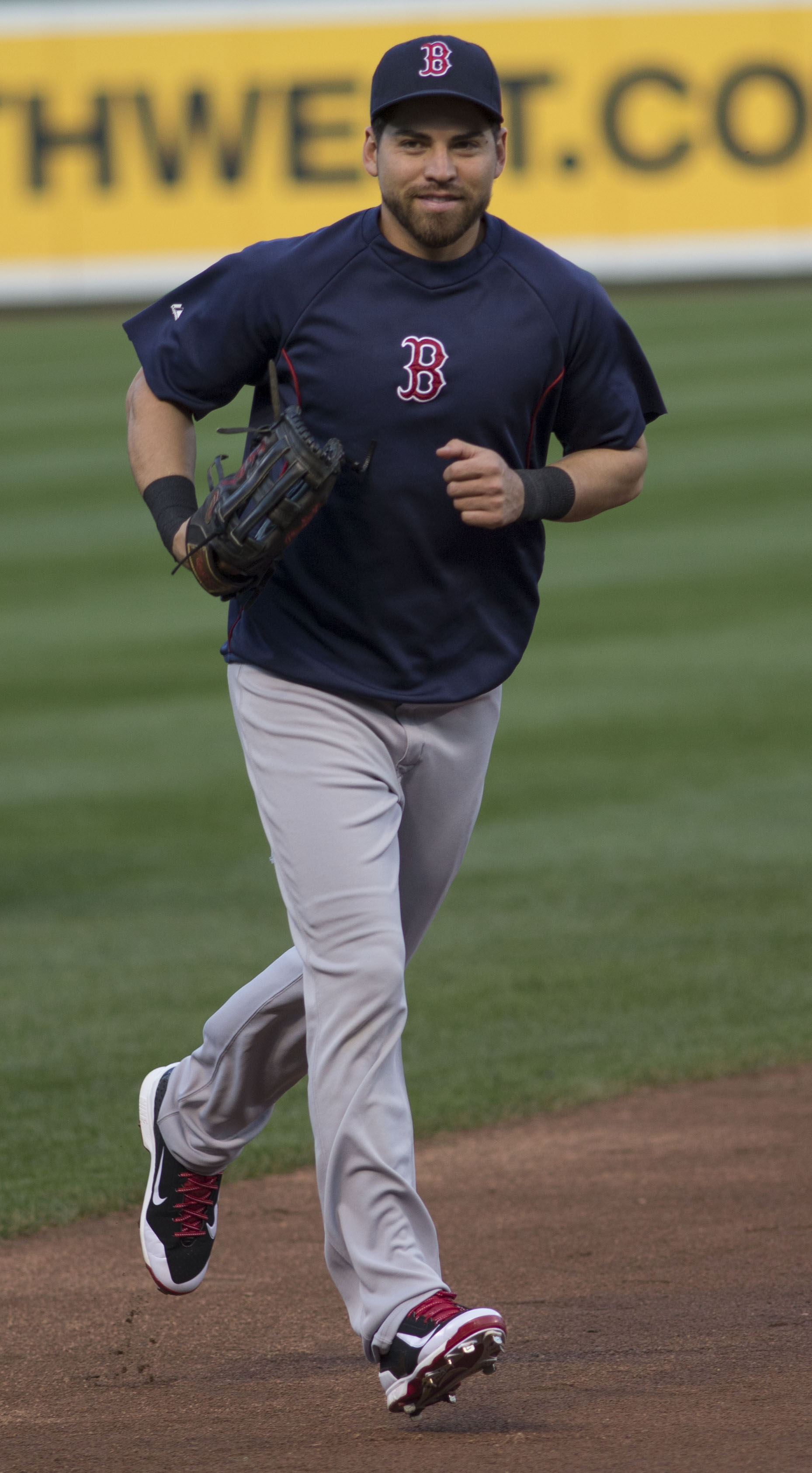 Jacoby Ellsbury warming-up before a game on September 28, 2013. Boston at Baltimore.